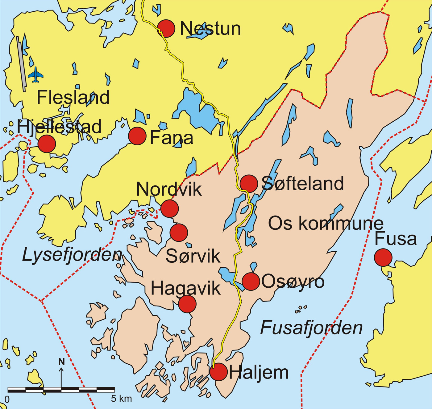 Kart over Os kommune i Hordaland - map of Os kommune in Hordland in Norway.